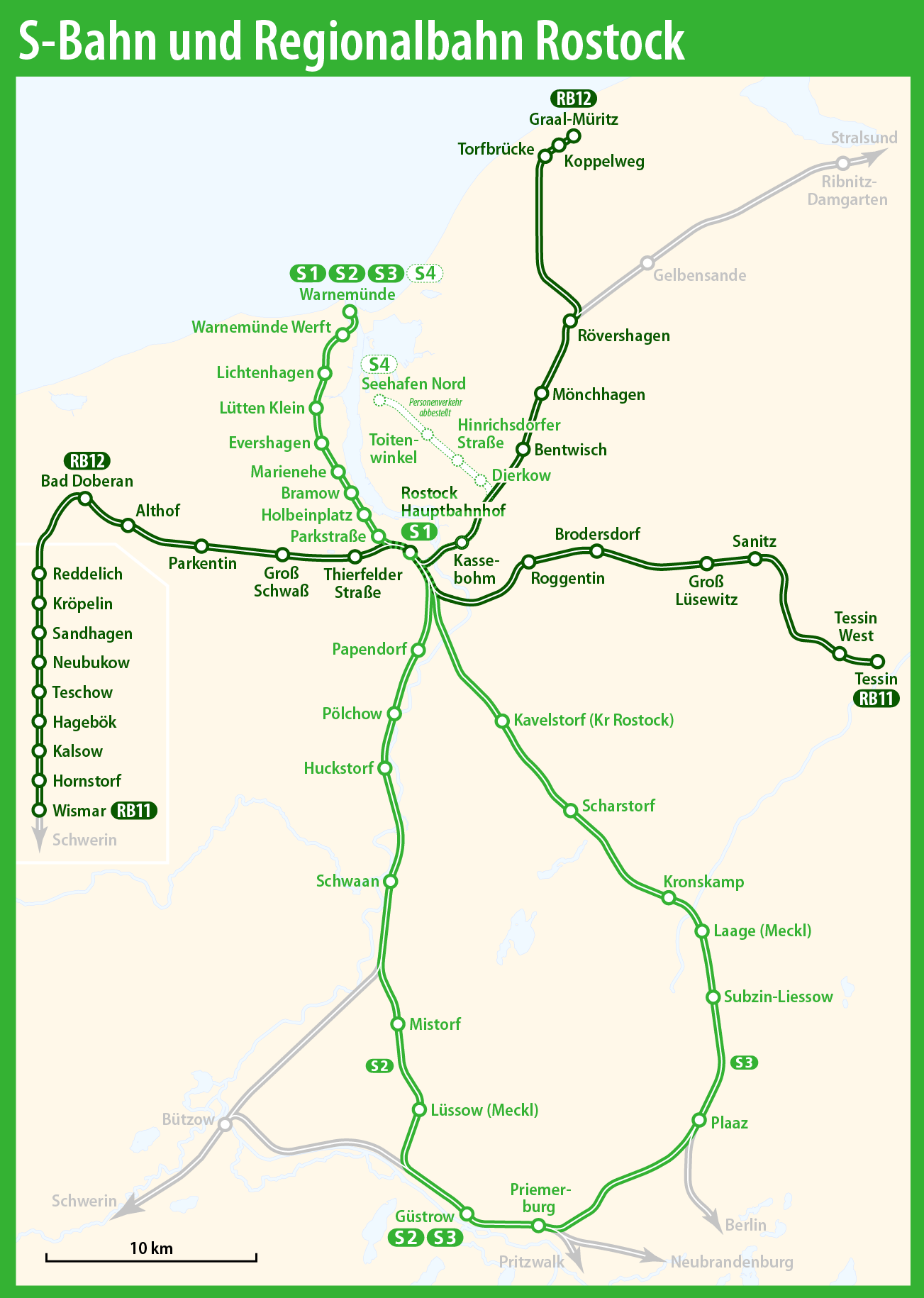 Map of the Rostock suburban railway services